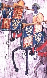 The national archives describe this thus: "an extract from the 60ft-long Westminster Tournament Roll, shows six trumpeters, one of whom is Black and is almost certainly John Blanke. All the trumpeters are wearing yellow and grey, with blue purses at their waists. John Blanke is the only one wearing a brown turban latticed with yellow. He is mounted on a grey horse with a black harness."